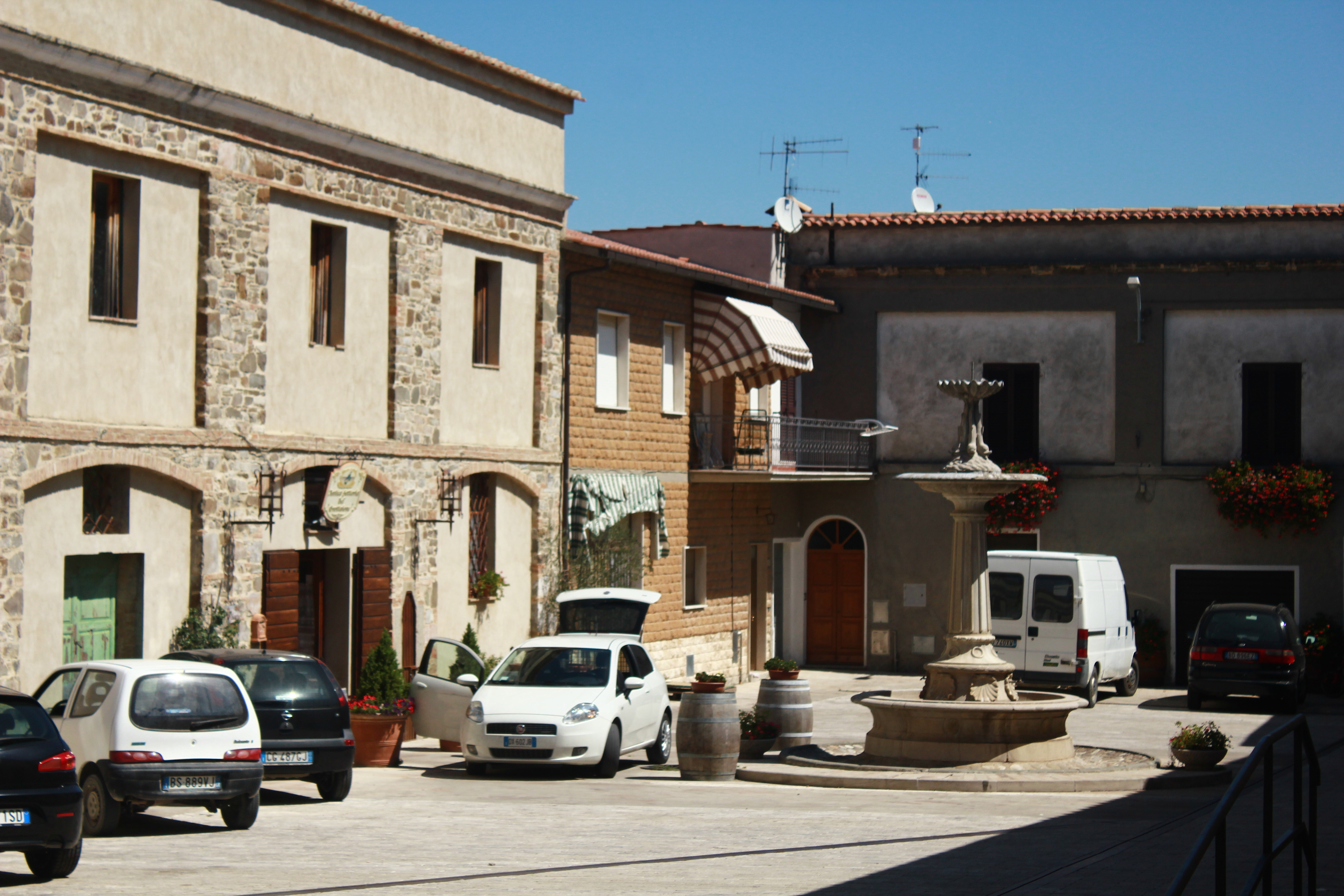 Fattoria Avanzati in Montenero d'Orcia, Tuscany